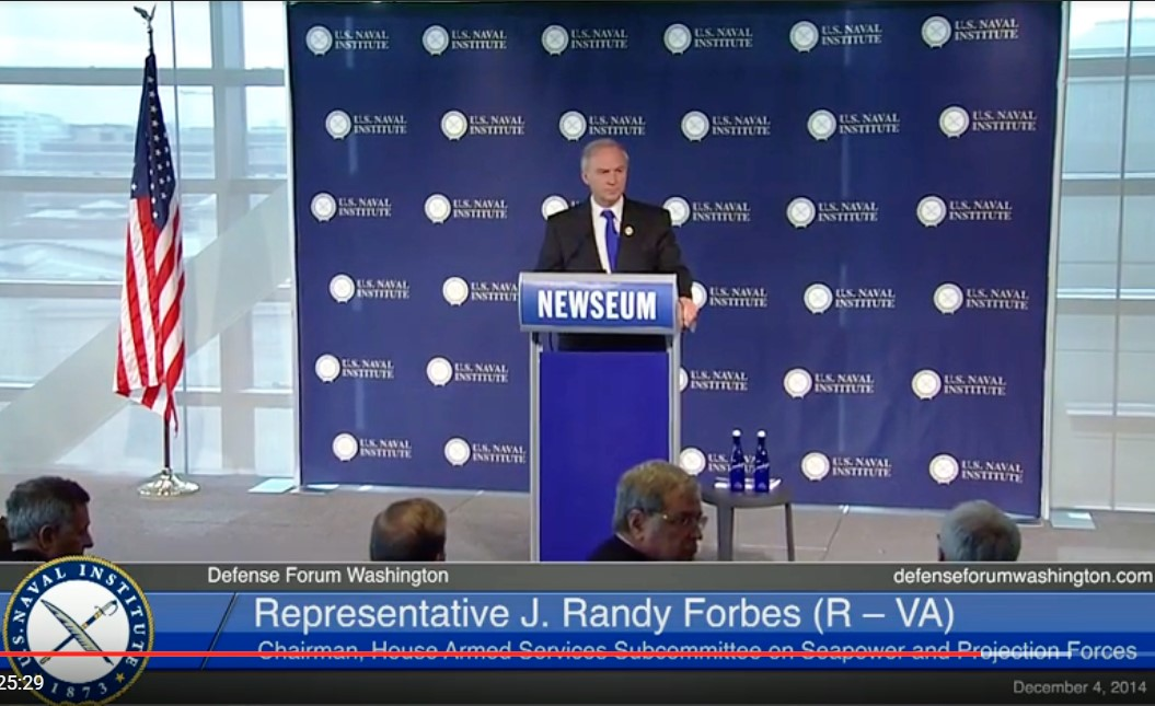 Defense Forum Washington